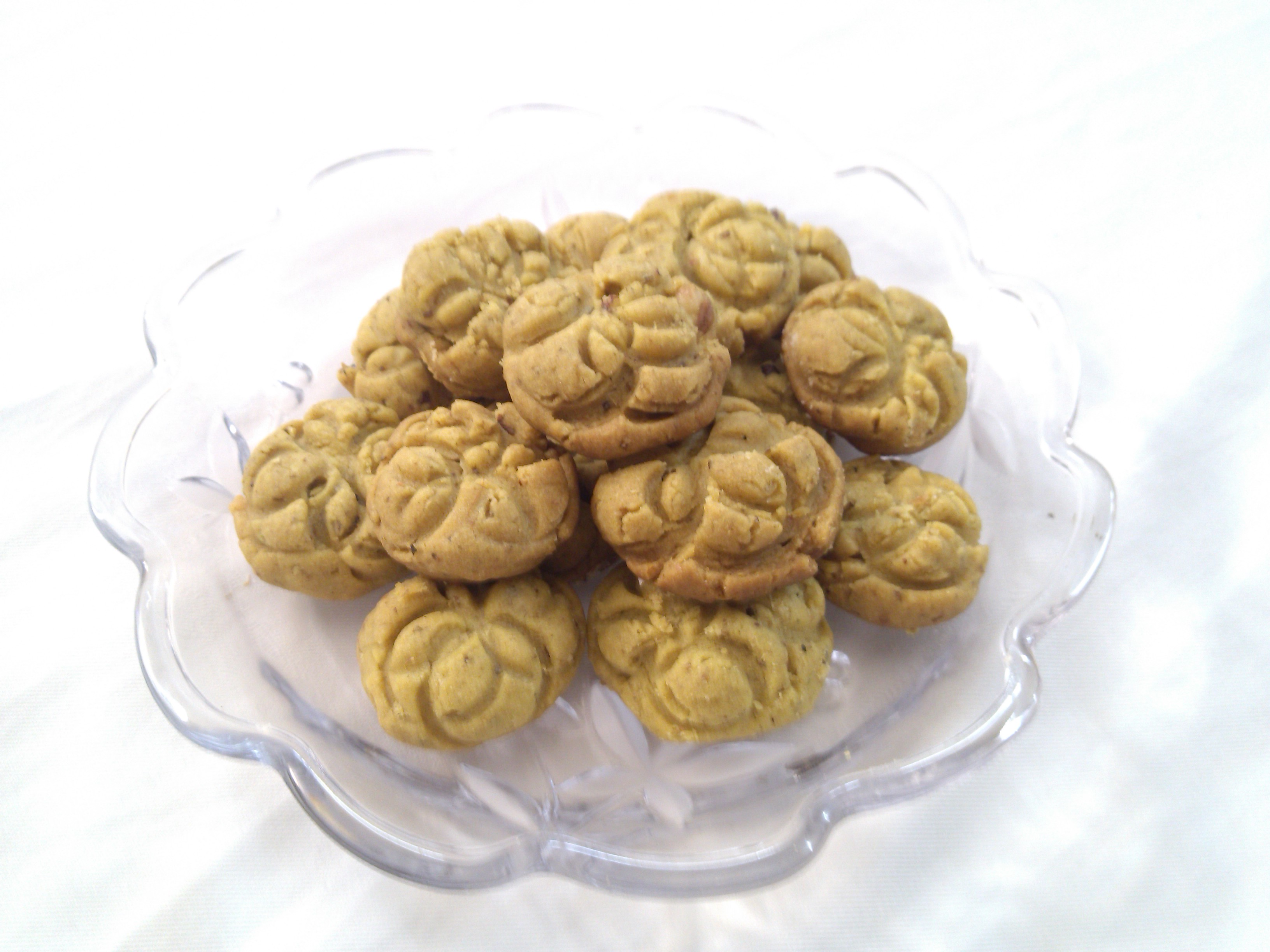 Āqooz Kenna